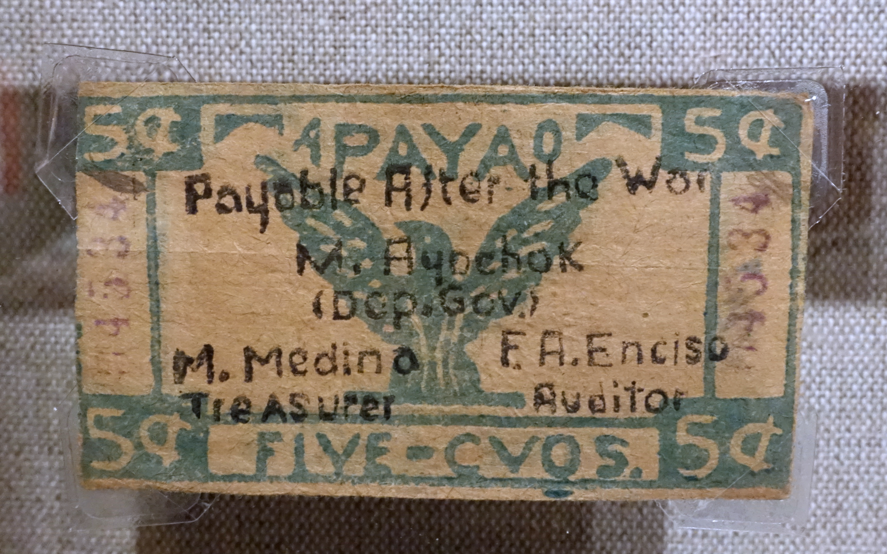 Exhibit in the Spurlock Museum, University of Illinois at Urbana-Champaign - Urbana-Champaign, Illinois, USA. This work is old enough so that it is in the public domain.